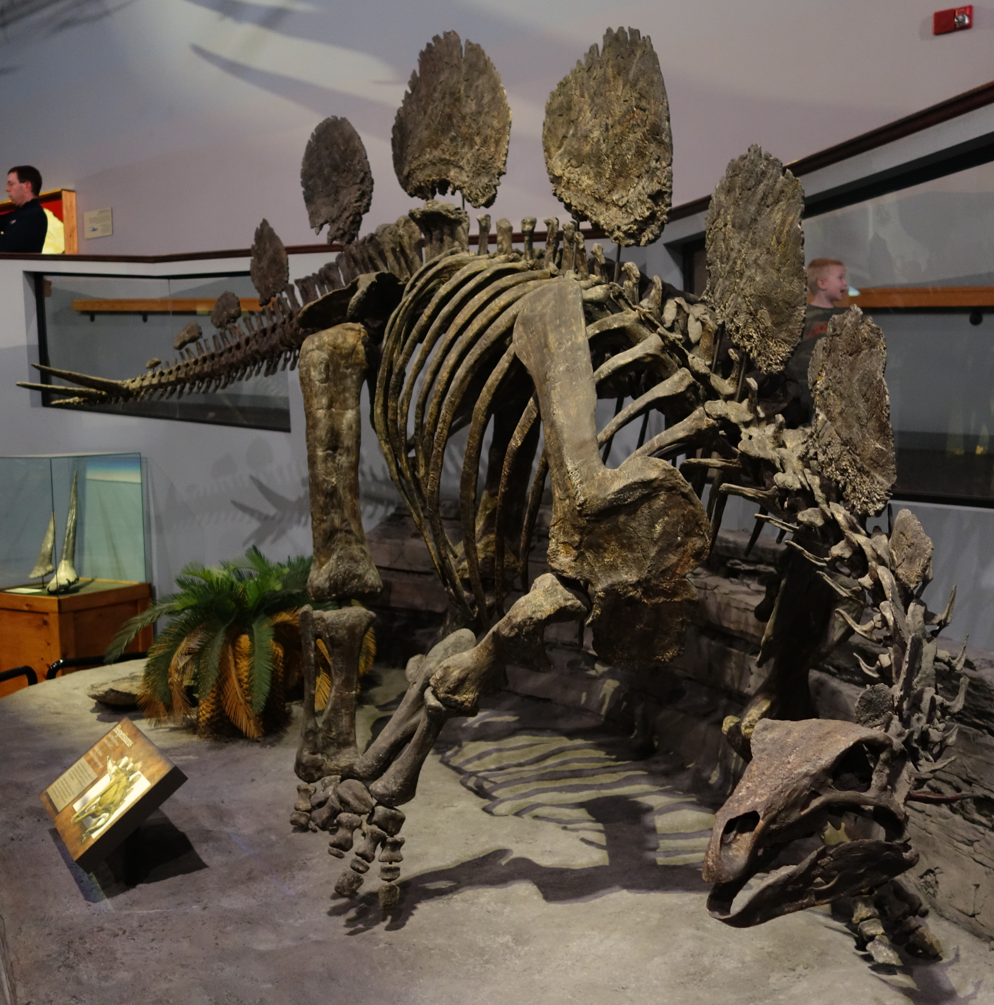 Hesperosaurus skeletal mount, on display at the Museum of Ancient Life, Utah.